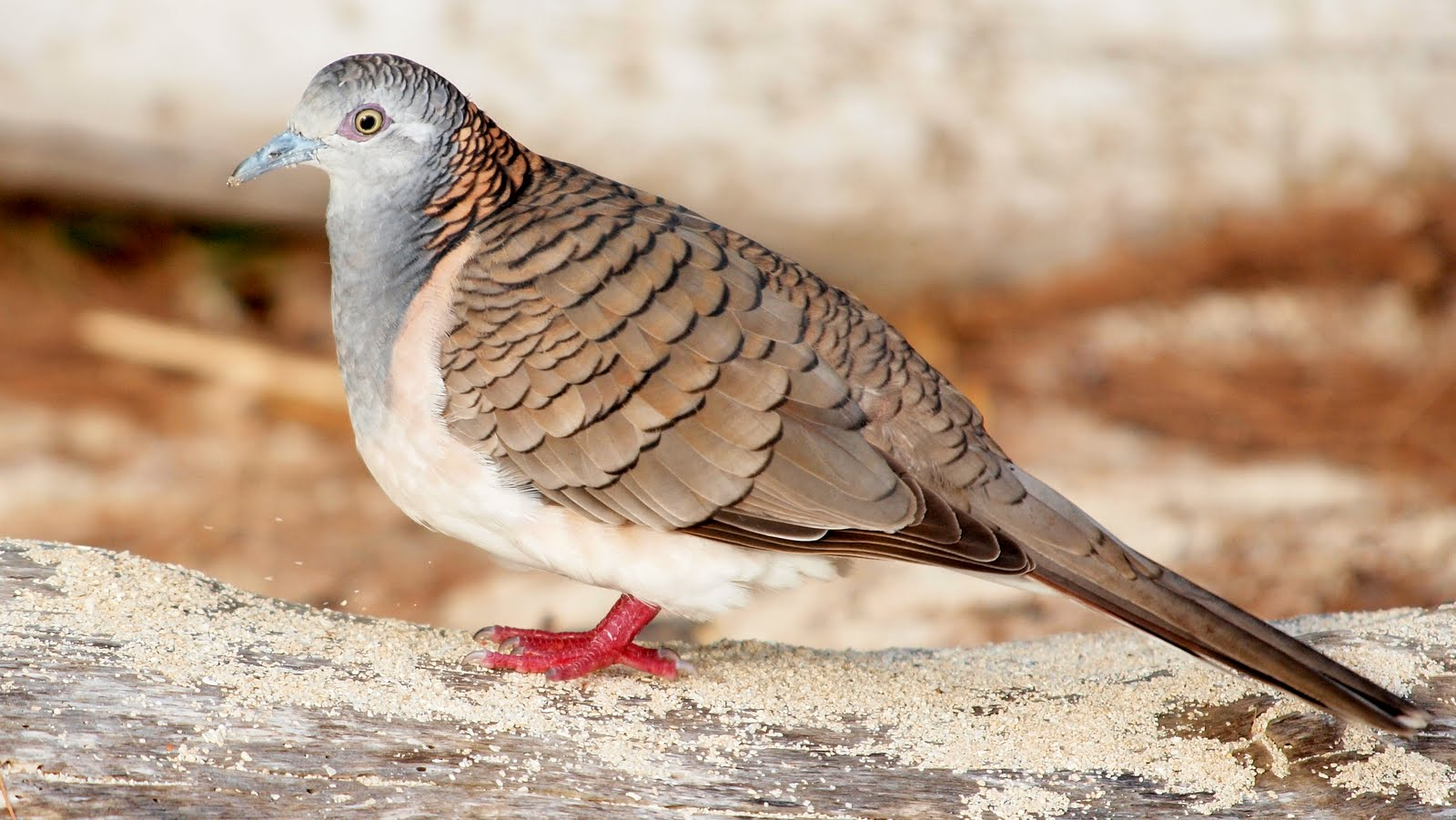 A Bar-shouldered Dove in Green Island National Park, Green Island, Queensland, Australia.